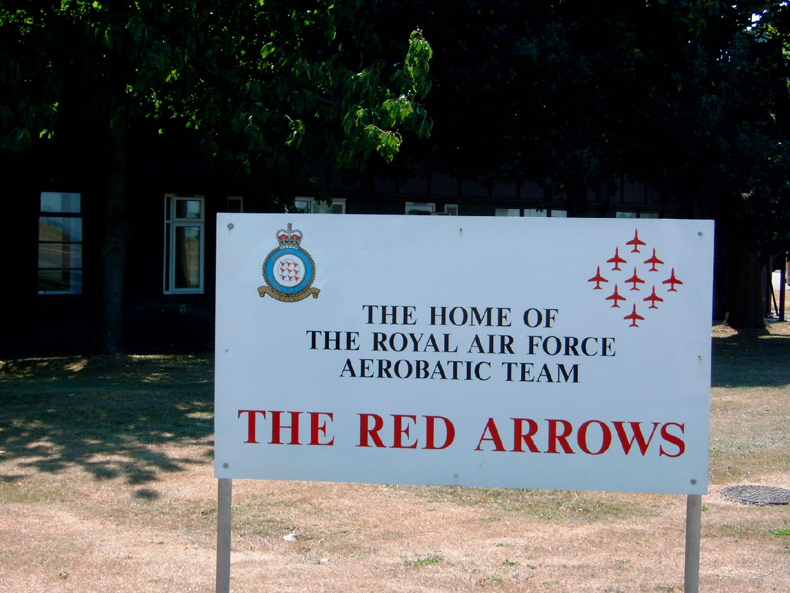 Sign outside the Red Arrows' hangar, RAF Scampton